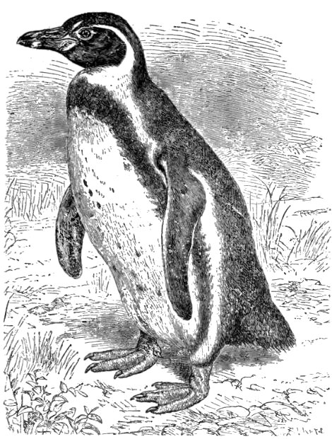 Humboldt Penguin